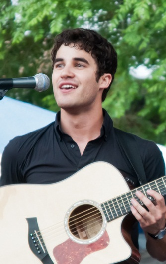 Darren Criss in Chicago